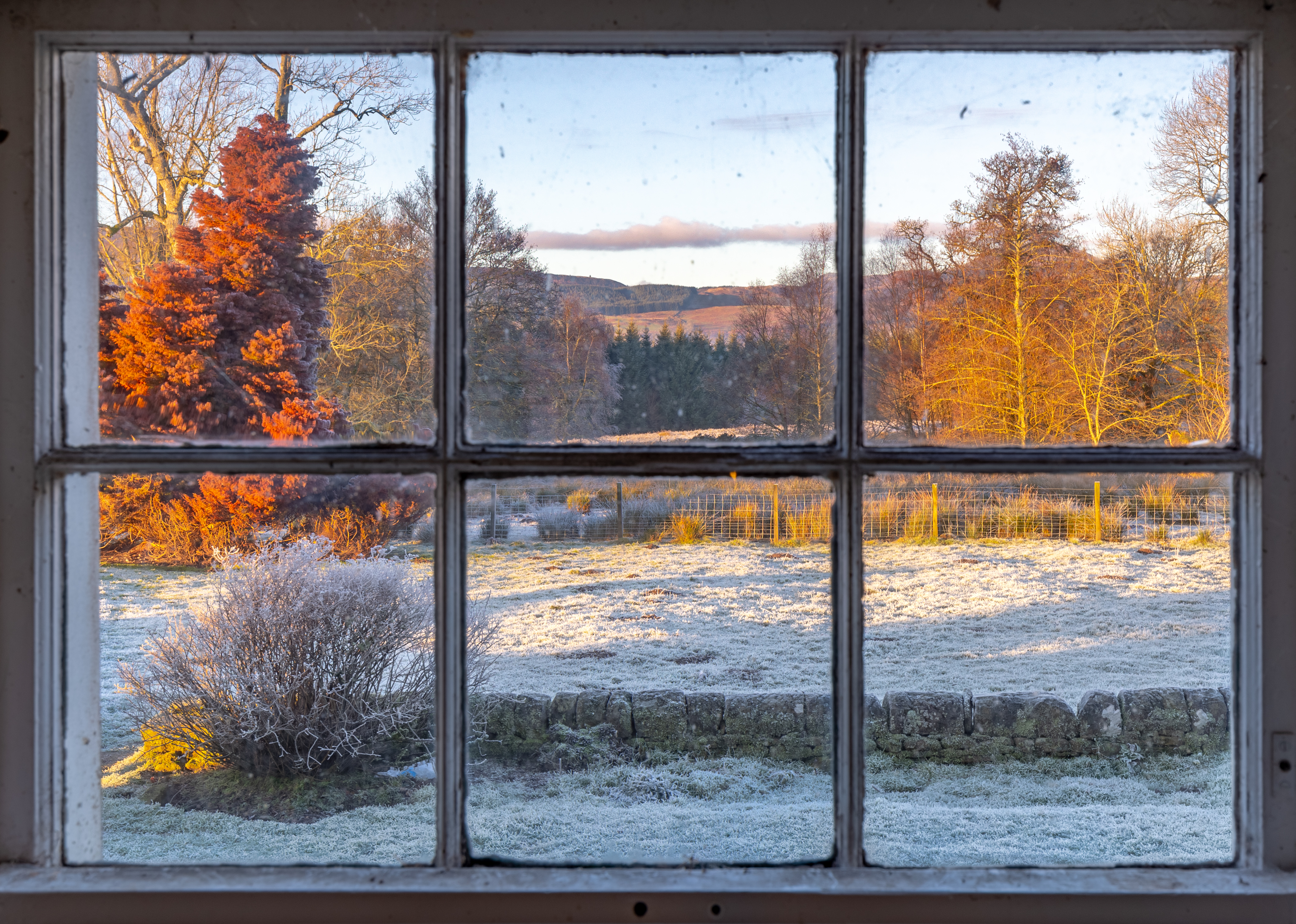 View of a frosty evening through a window on a Scottish farm in Trossachs, United Kingdom